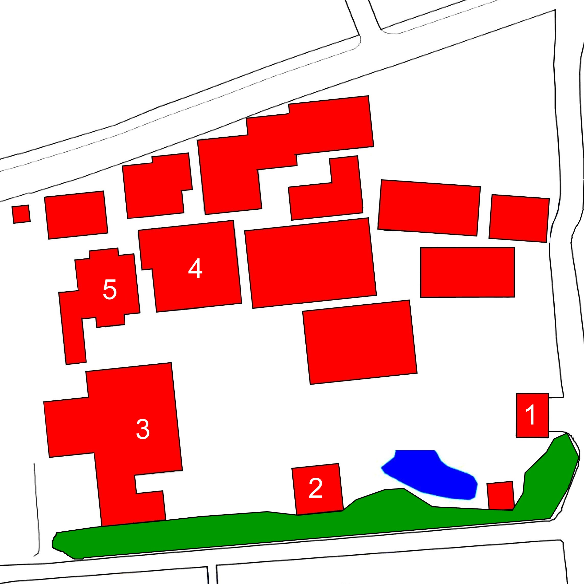 Layout of Anraku-ji at Kamiita, Tokushima Prefecture